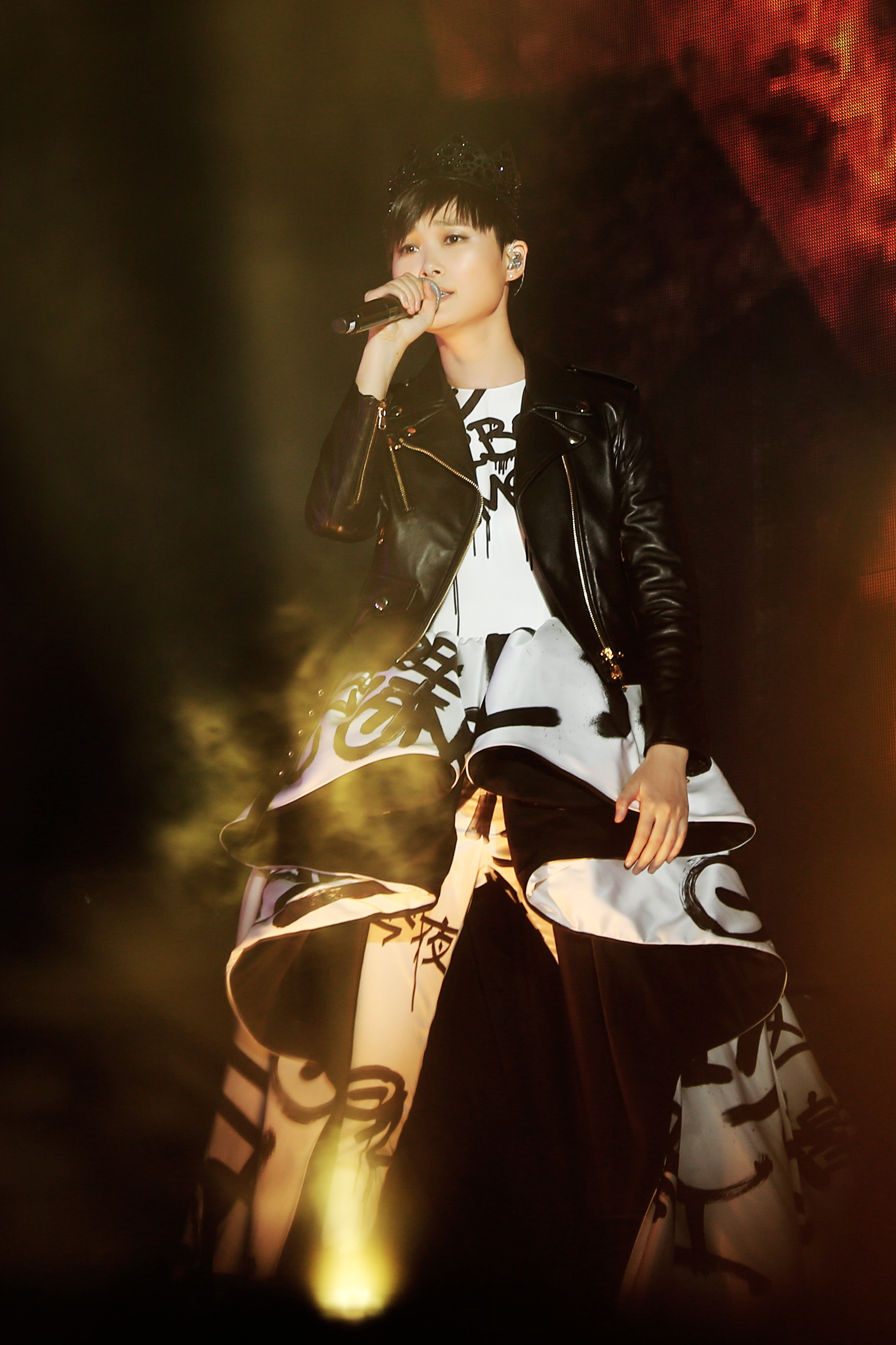 Li Yuchun in Moschino, at 2015 WhyMe Chris Lee Chengdu 10th anniversary concert.